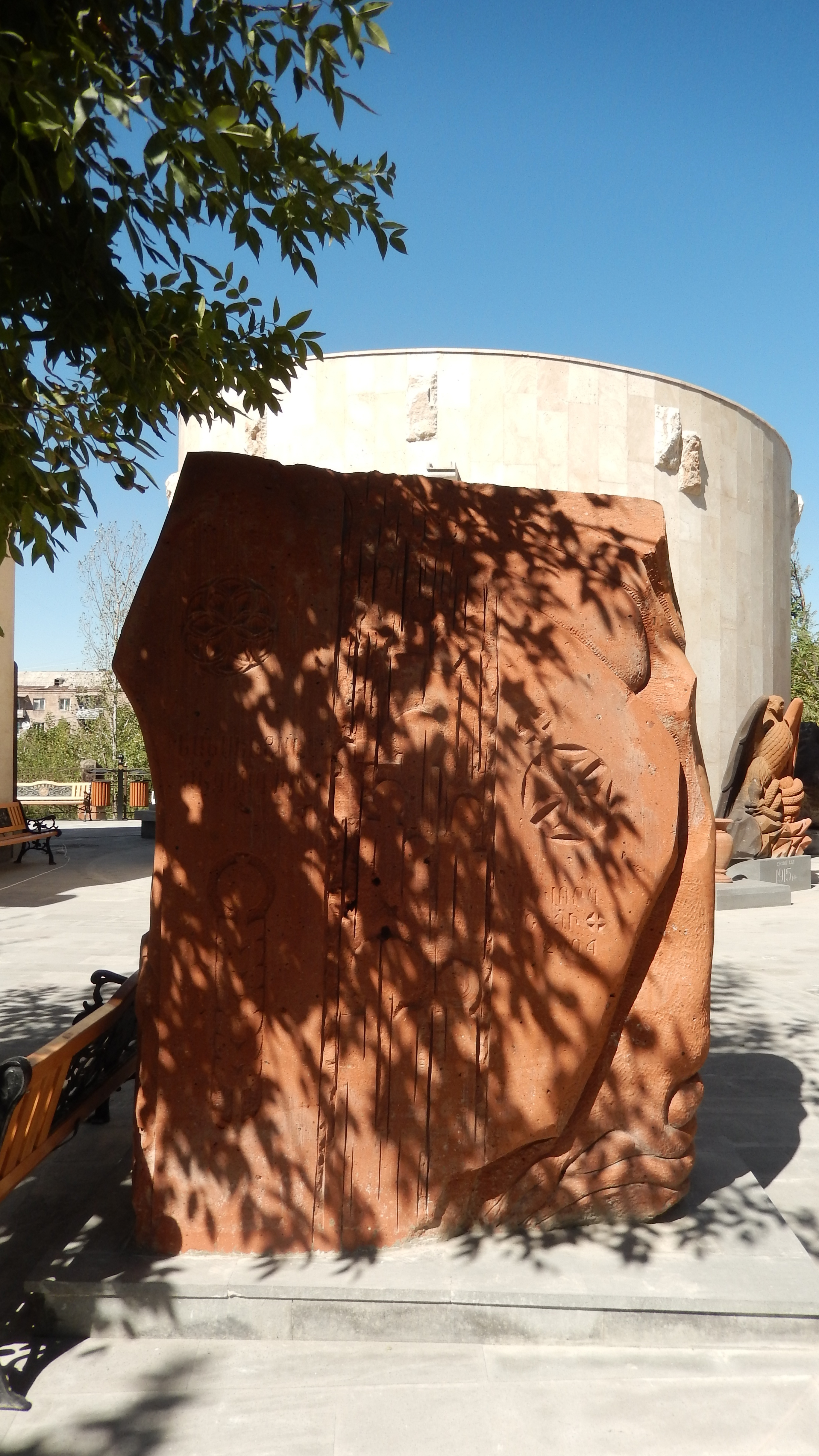 Nansen Museum, Yerevan